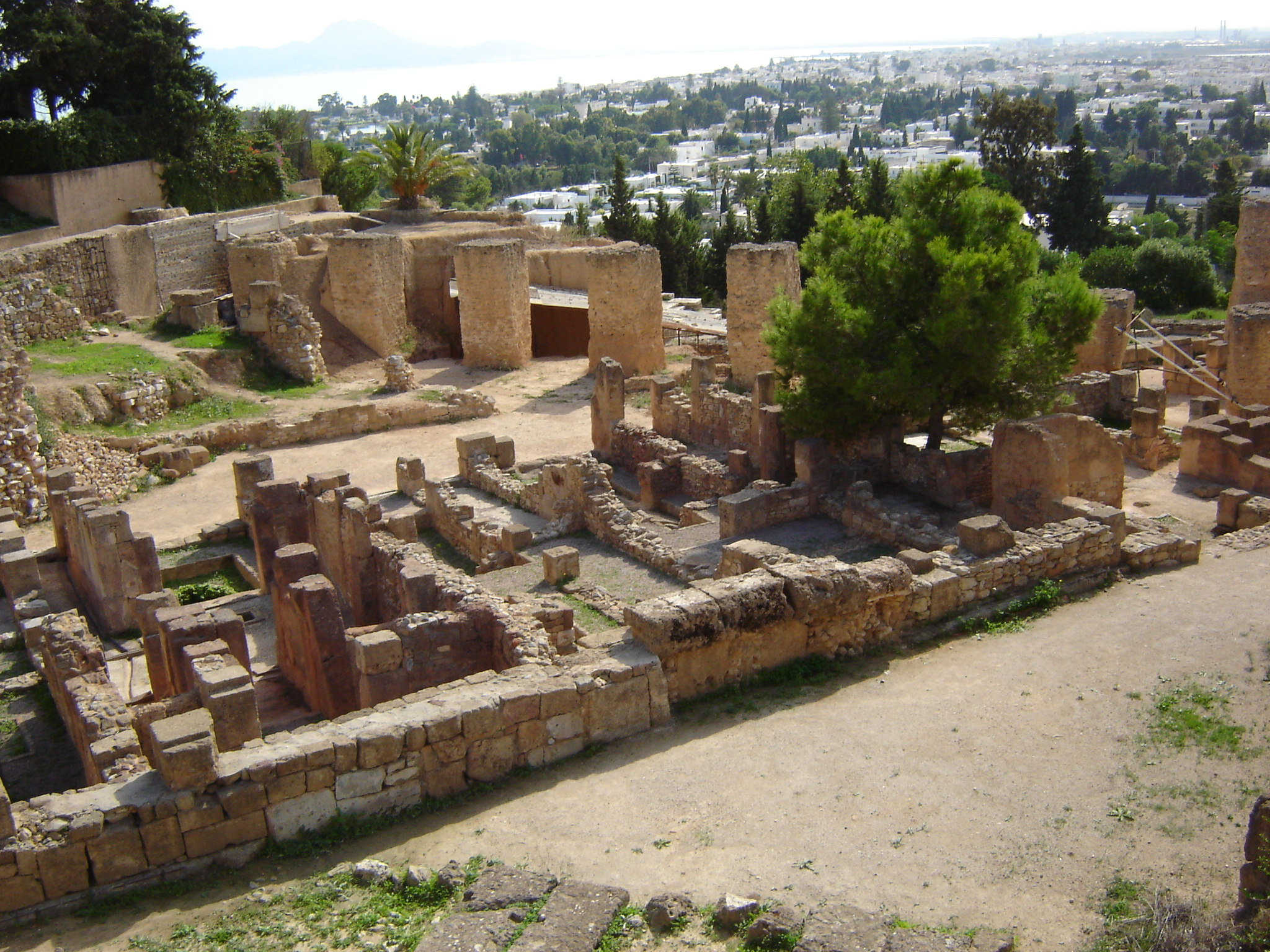 Ruins of the Punic Quarter on the Byrsa hill, Carthage Source: Self-made, October 2004 Author: BishkekRocks